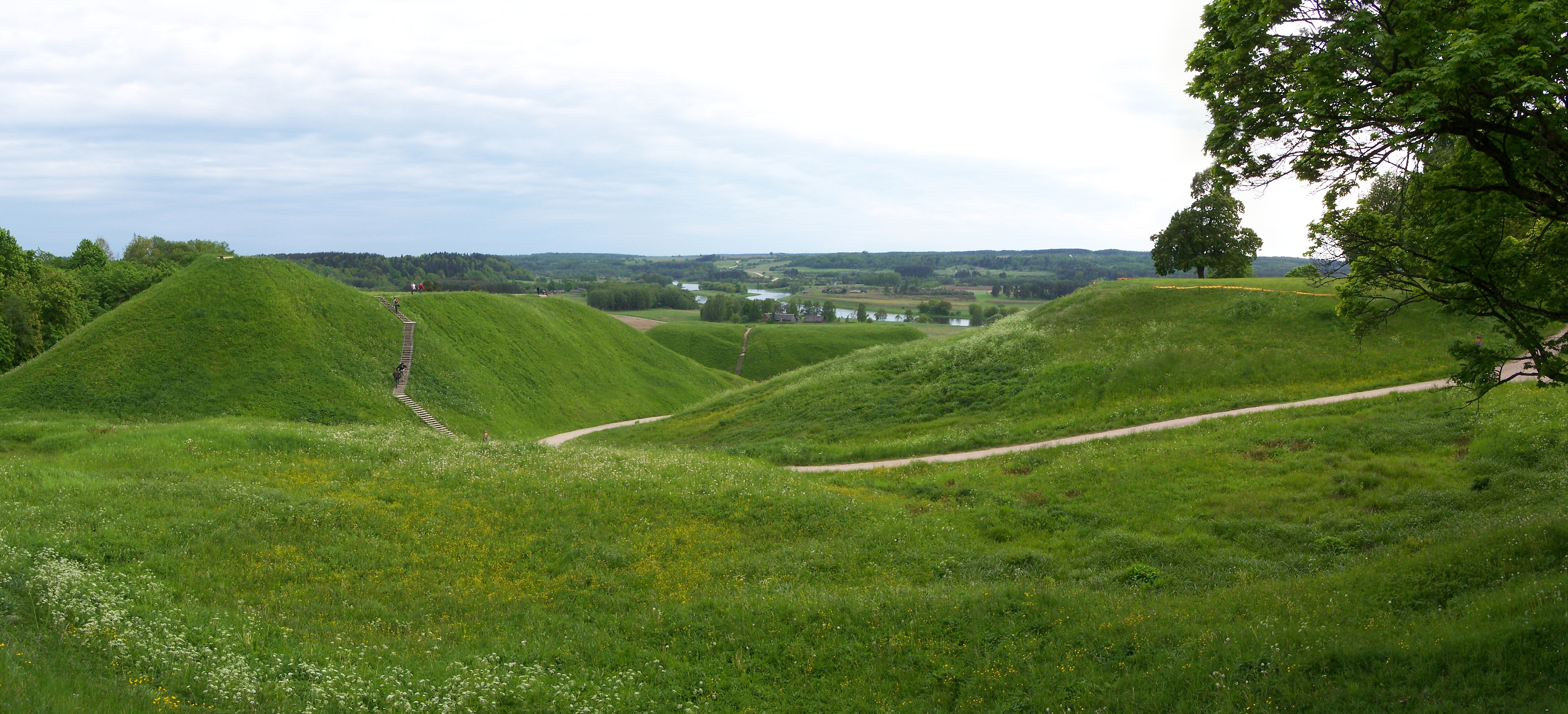 Old hillfort mounds in Kernavė (Lithuania).